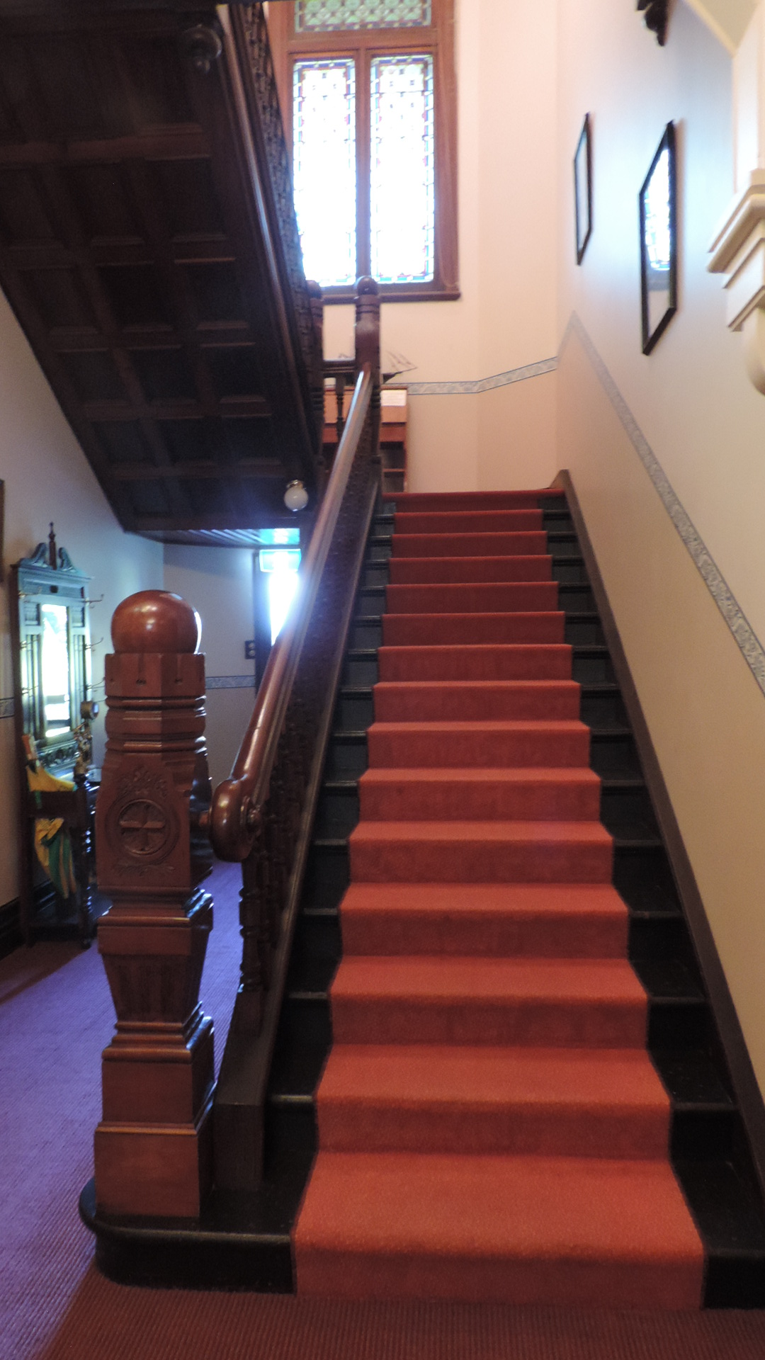 Our Lady of Assumption Convent, Warwick - main internal stairs, 2015